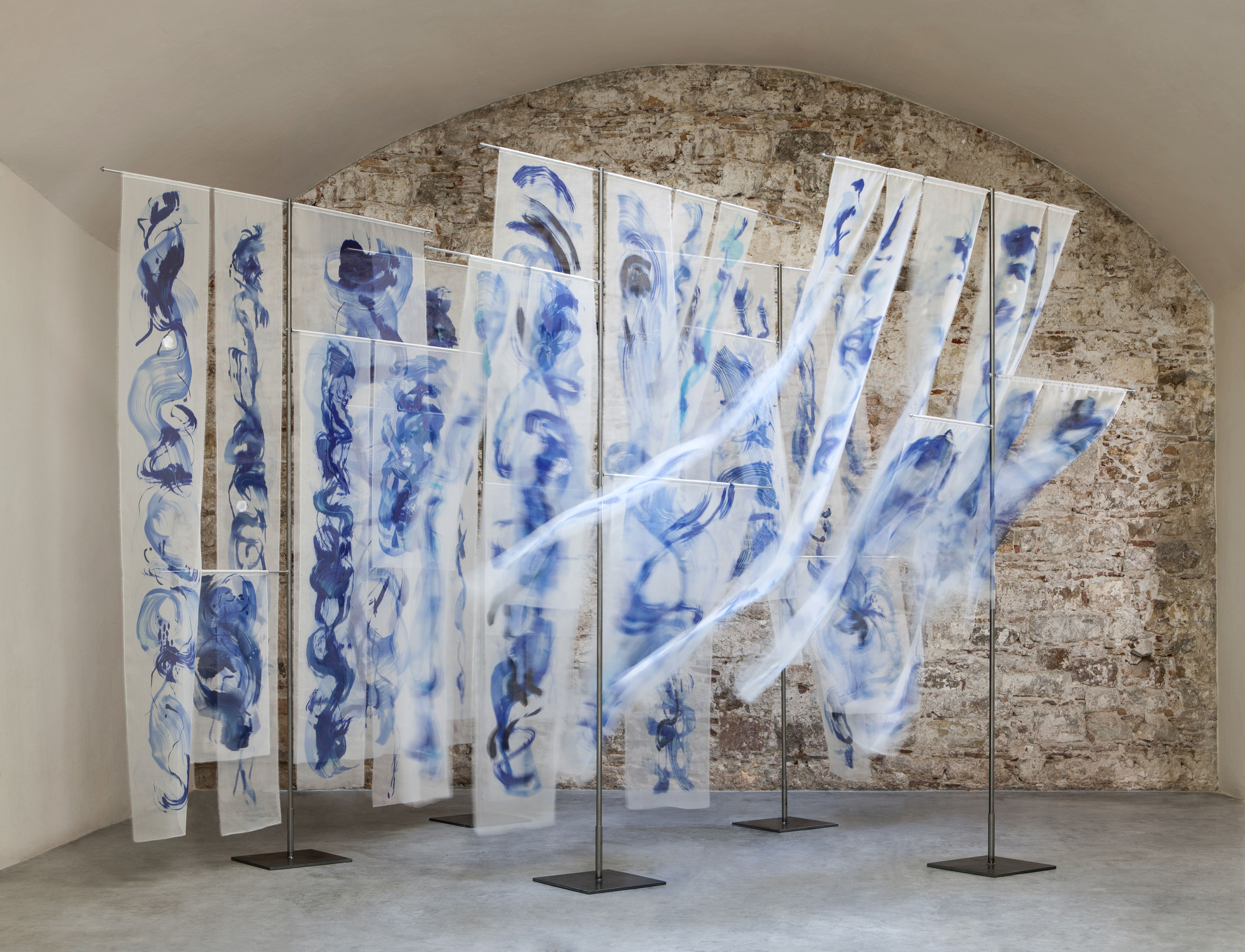 Kima's own interpretation of Buddhist prayer banners. The idea is that the petitions for Peace, Joy, Wisdom, Kindness and Flow, painted in these silks with transparent brush strokes may carry blessings to all living beings with the winds passing through these banners.